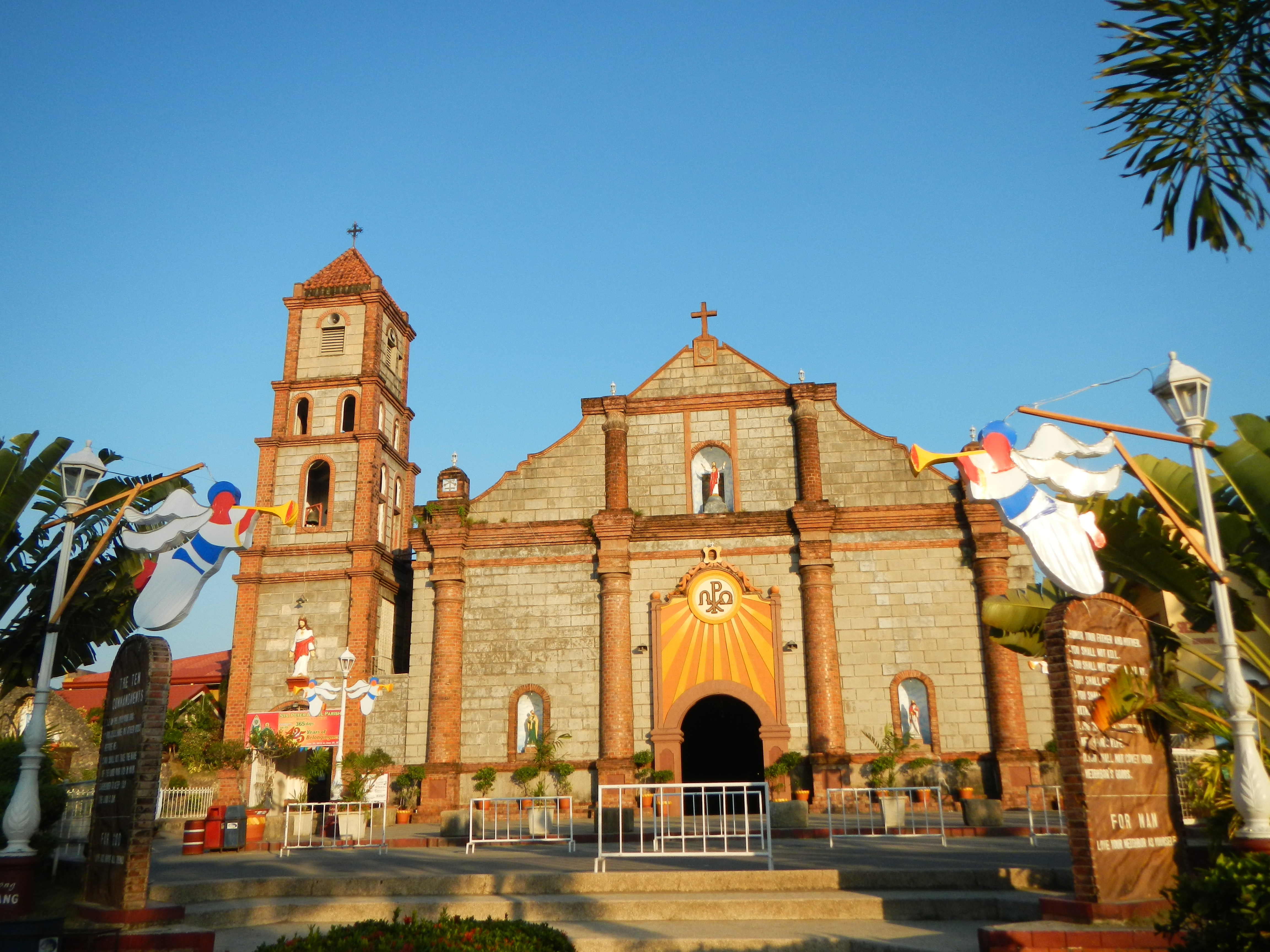 1587 Sts. Peter & Paul Parish Church, Roman Catholic Archdiocese of San Fernando de La Union, Bauang, La Union[1][2]